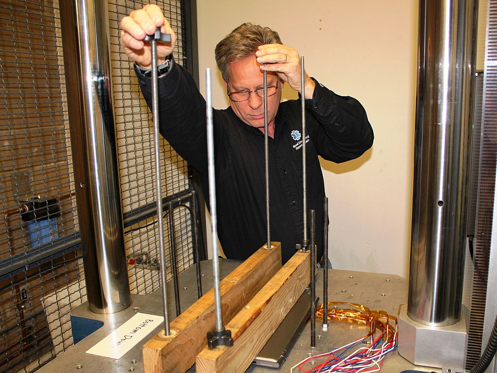 Intel engineer Russ Brown tests an Ultrabook for mechanical shock. He is bracing a device that will crash down from a hydraulic platform to simulate a 3-foot drop onto concrete. See more: Torture Testing Ultrabooks to Benefit Consumers Ultrabook product testing influences design of 4th generation Intel Core processor. In a space no larger than a one-car garage, Russ Brown, an Intel engineering technician, puts electronic devices through hell. Torturing Ultrabooks is monotonous and noisy work -- mechanical shock testing, for example, can mean several months of repeated banging to simulate a 3-foot drop onto concrete. But as Brown will attest, it makes for better computing devices. "It's loud and repetitive, but that's part of what it takes for better-designed and more durable products," he said. Brown is part of a corporate quality network that punishes Intel-powered devices to collect data for the company's product and technology development teams and OEM partners. "Our teams are eager to know how different customer designs can affect the reliability of Intel products," said Jagadeesh Radhakrishnan, a reliability engineer. "It also helps Intel understand how to design the next-generation product better in order to survive the growing expectations of new form factor designs such as convertibles and tablets." Data collected from testing has influenced product design of systems based on the upcoming 4th generation Intel Core processor, formerly codenamed "Haswell."